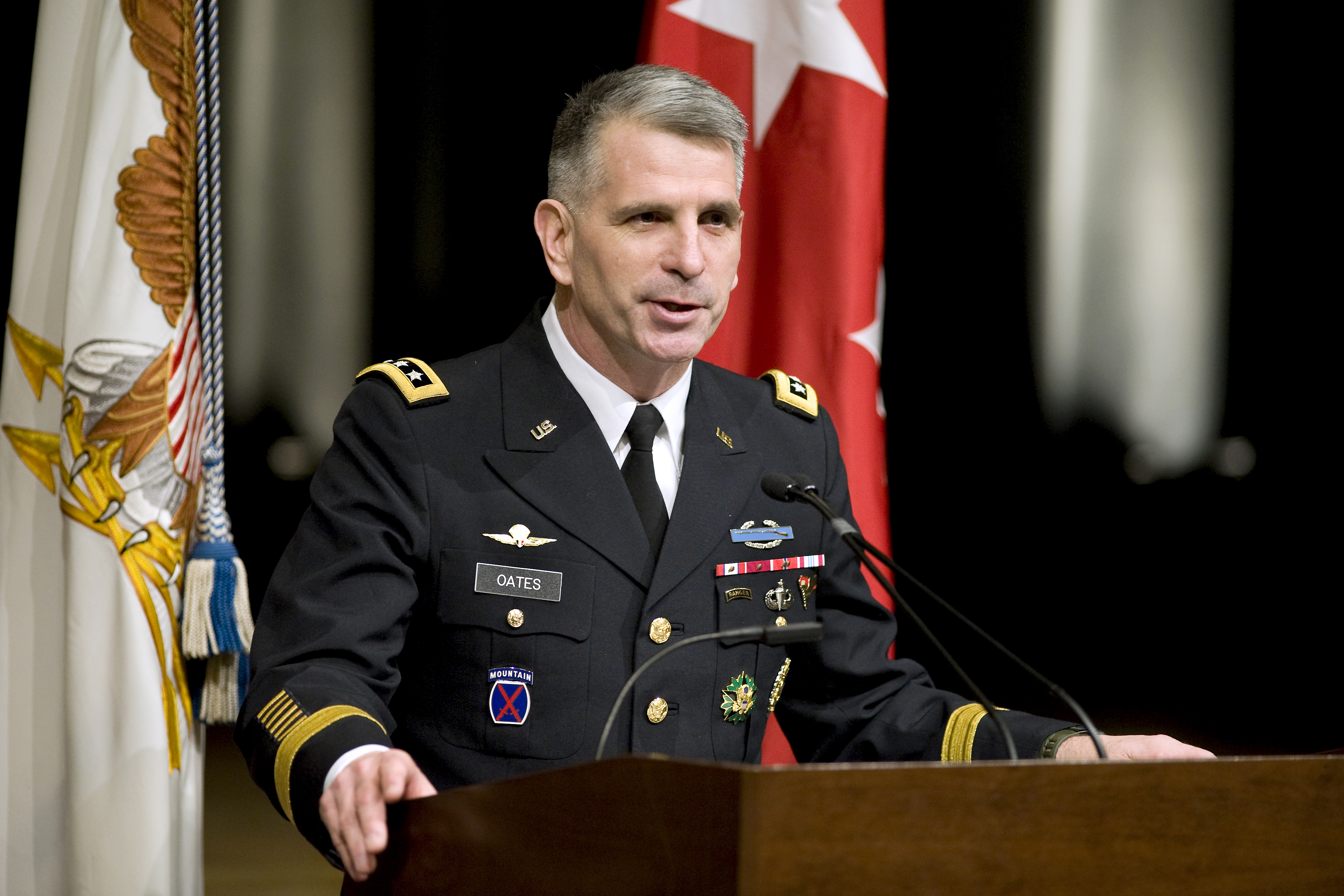 Army Lt. Gen. Michael L. Oates, incoming director of the Joint Improvised Explosive Device Defeat Organization, addresses the audience during the organization's change of directorship ceremony hosted by Deputy Defense Secretary William J. Lynn III at the Pentagon, Dec. 30, 2009. The outgoing director is Army Lt. Gen. Thomas F. Metz.